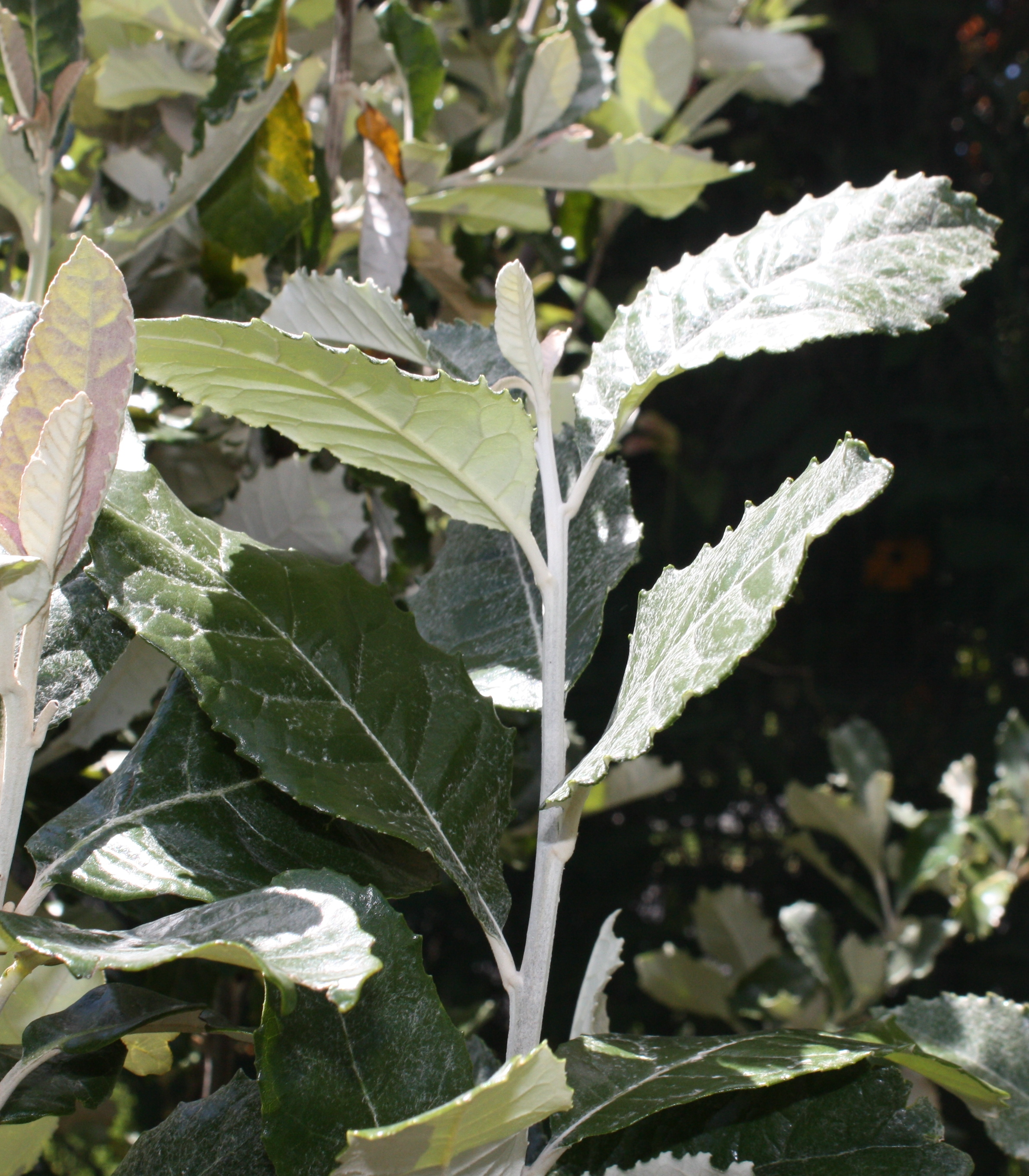 Leaves of the Brachylaena discolor tree. South Africa.